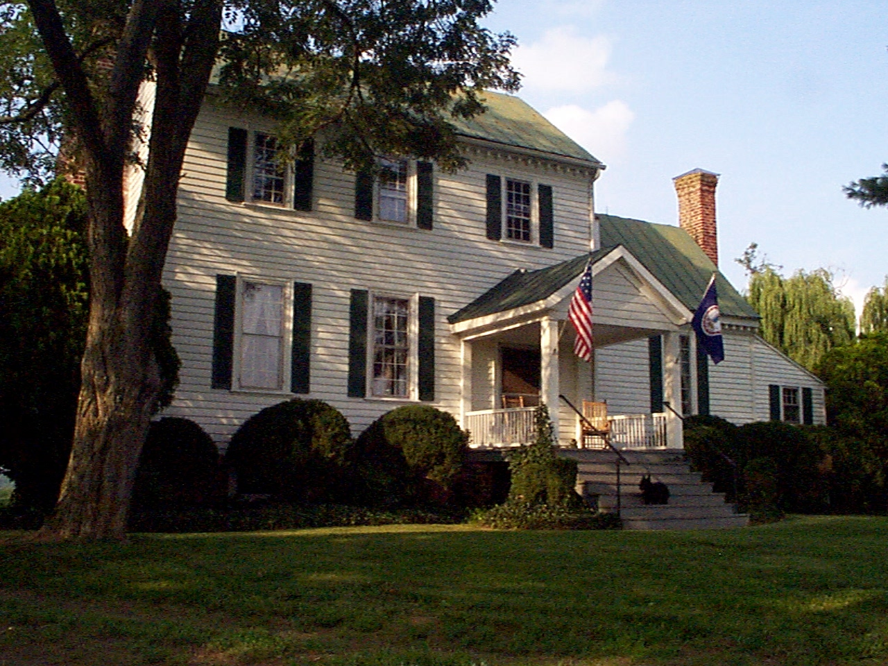 Oakridge